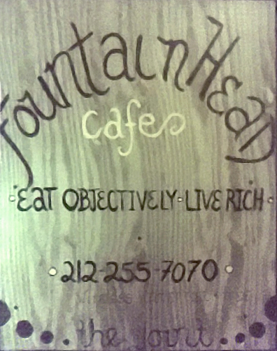 An Ayn Rand-inspired coffeeshop in the West Village? The sign reads, "Fountainhead Cafe: Eat Objectively, Live Rich." It's right across the street from the Riviera Cafe.